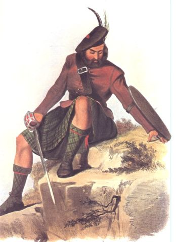 Source: James Logan, R. R. MacIan (ill.) The Clans of The Scottish Highlands. First published 1845, reprinted 1847. Creator: Robert Ronald MacIan (1803-1856)